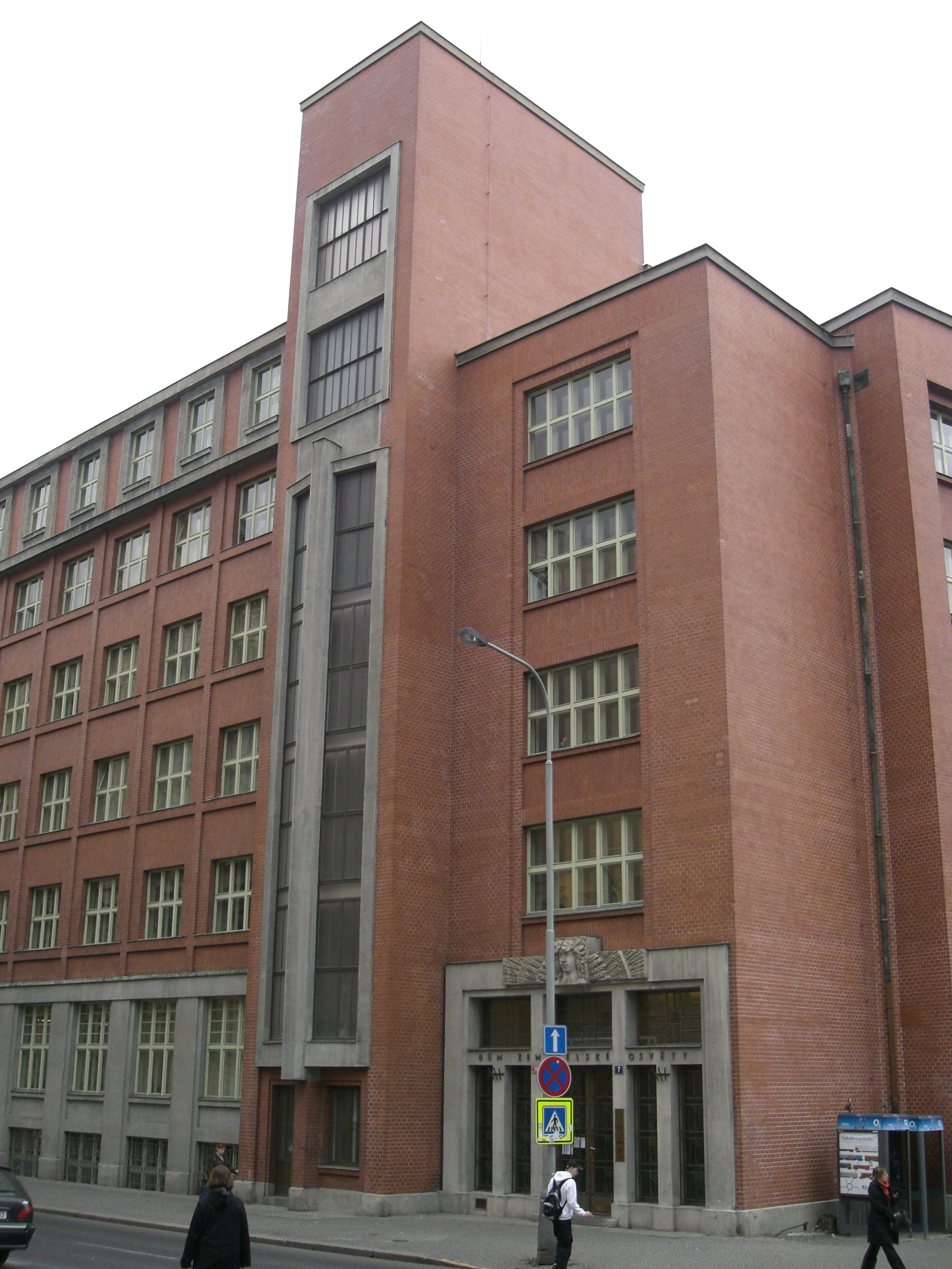 Zemědělská a potravinářská knihovna, Prague, Czech Republic